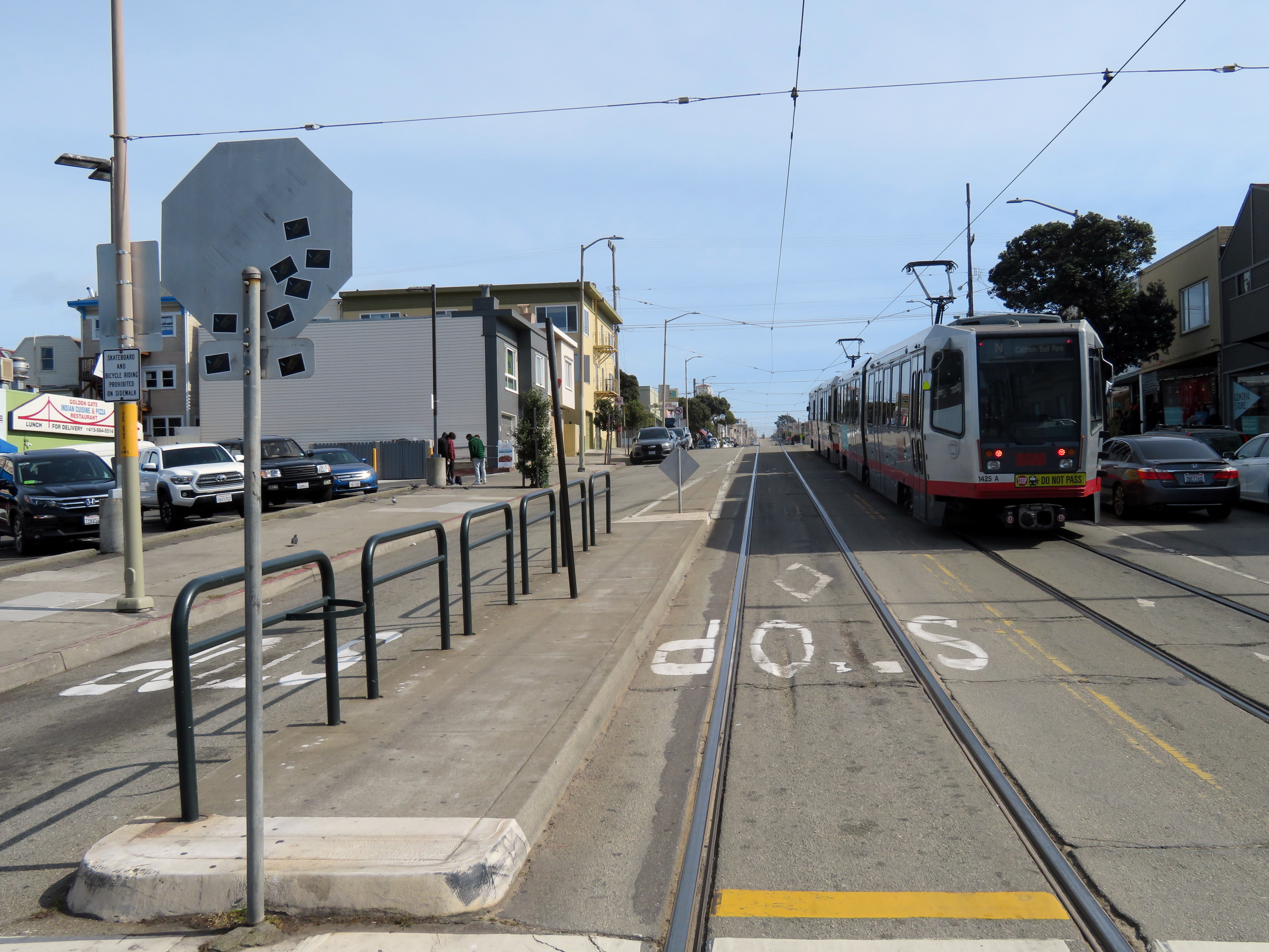 An inbound train passes the outbound platform at Judah and 46th Avenue station in February 2018